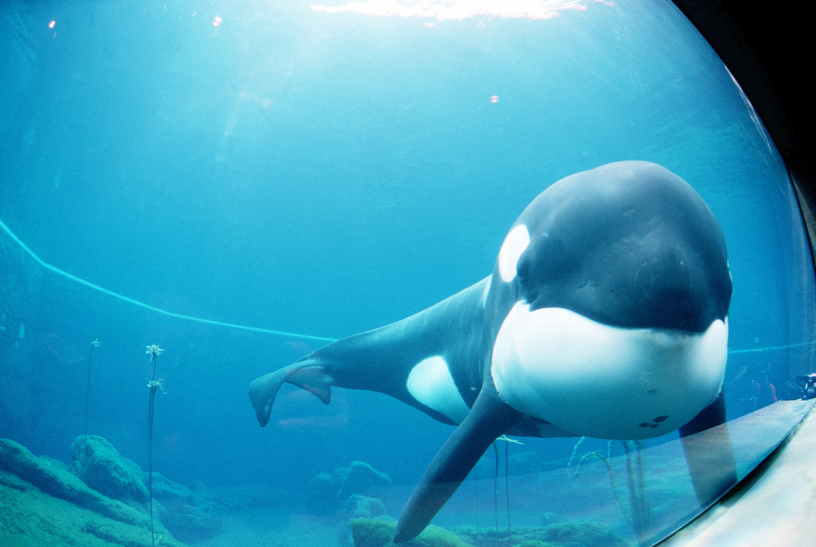 Straight on medium shot of Keiko the killer whale and star of the film Free Willy as he swims around in his tank prior to being moved from Newport, Oregon to Westman Islands, Iceland.